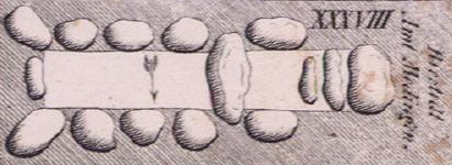 Megalithic tomb near Rieste, Sprockhoff-No. 744